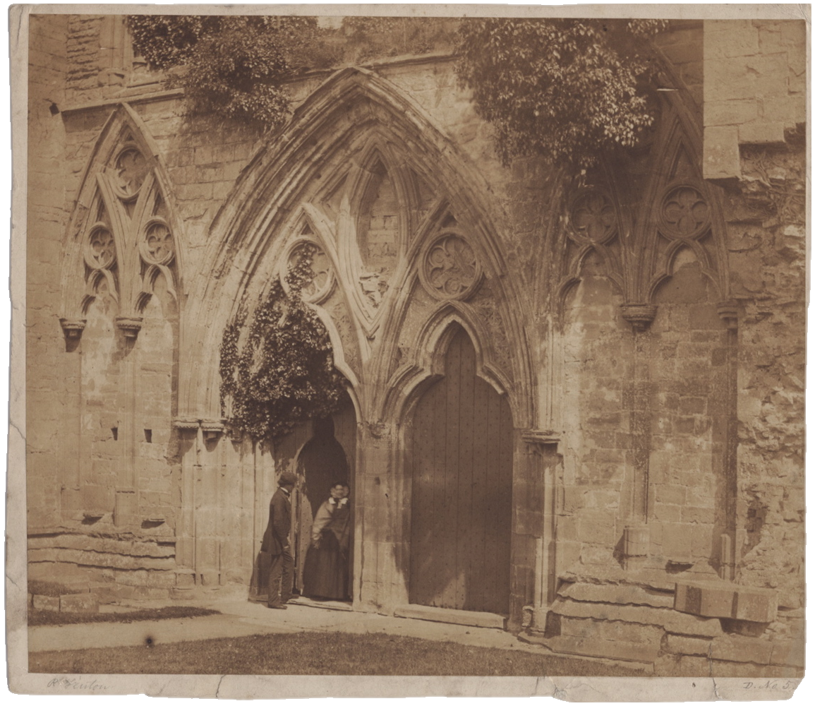 Architectural Salt Print